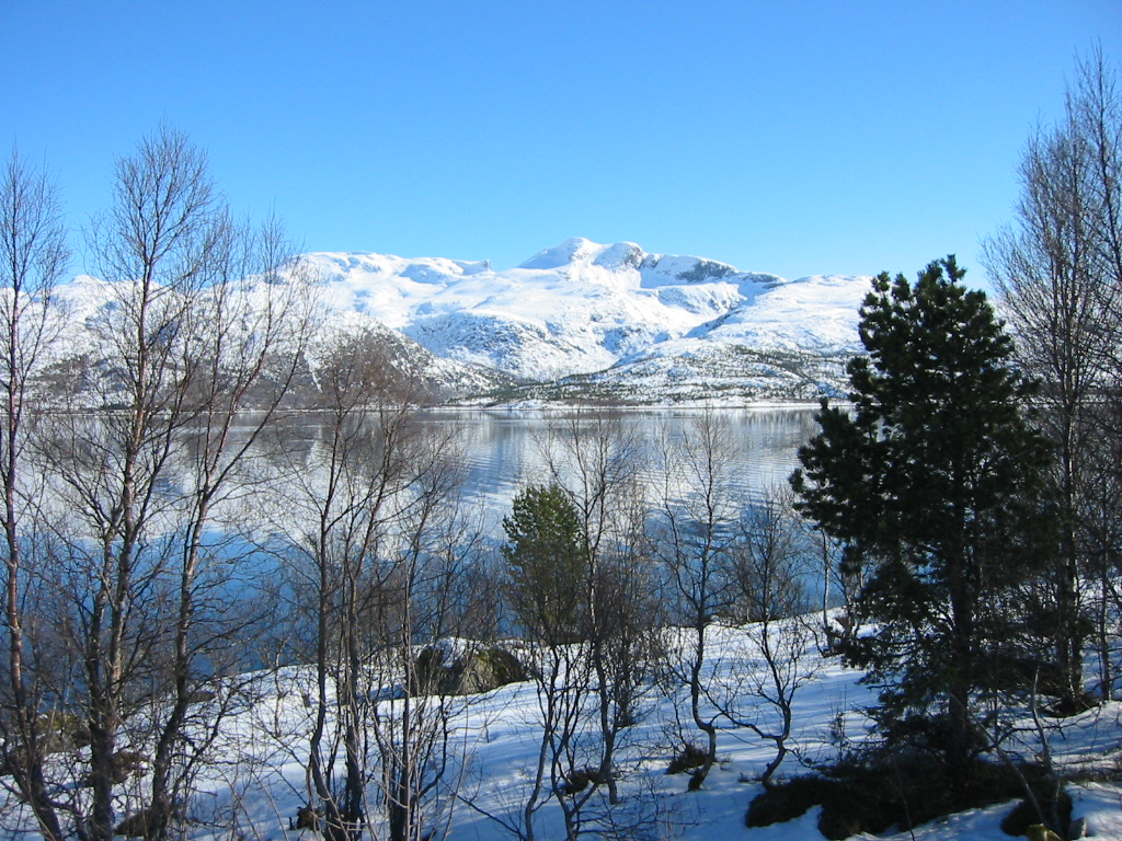 Picture overlooking Tjeldsundet strait in Nordland, Norway. The picture is taken just north of Lødingen on Hinnøya island towards the east. The mountains on Tjeldøya island in Tjeldsund municipality is clearly visible on the eastern side of this waterway. Picture taken April 9 2006 by Orcaborealis.